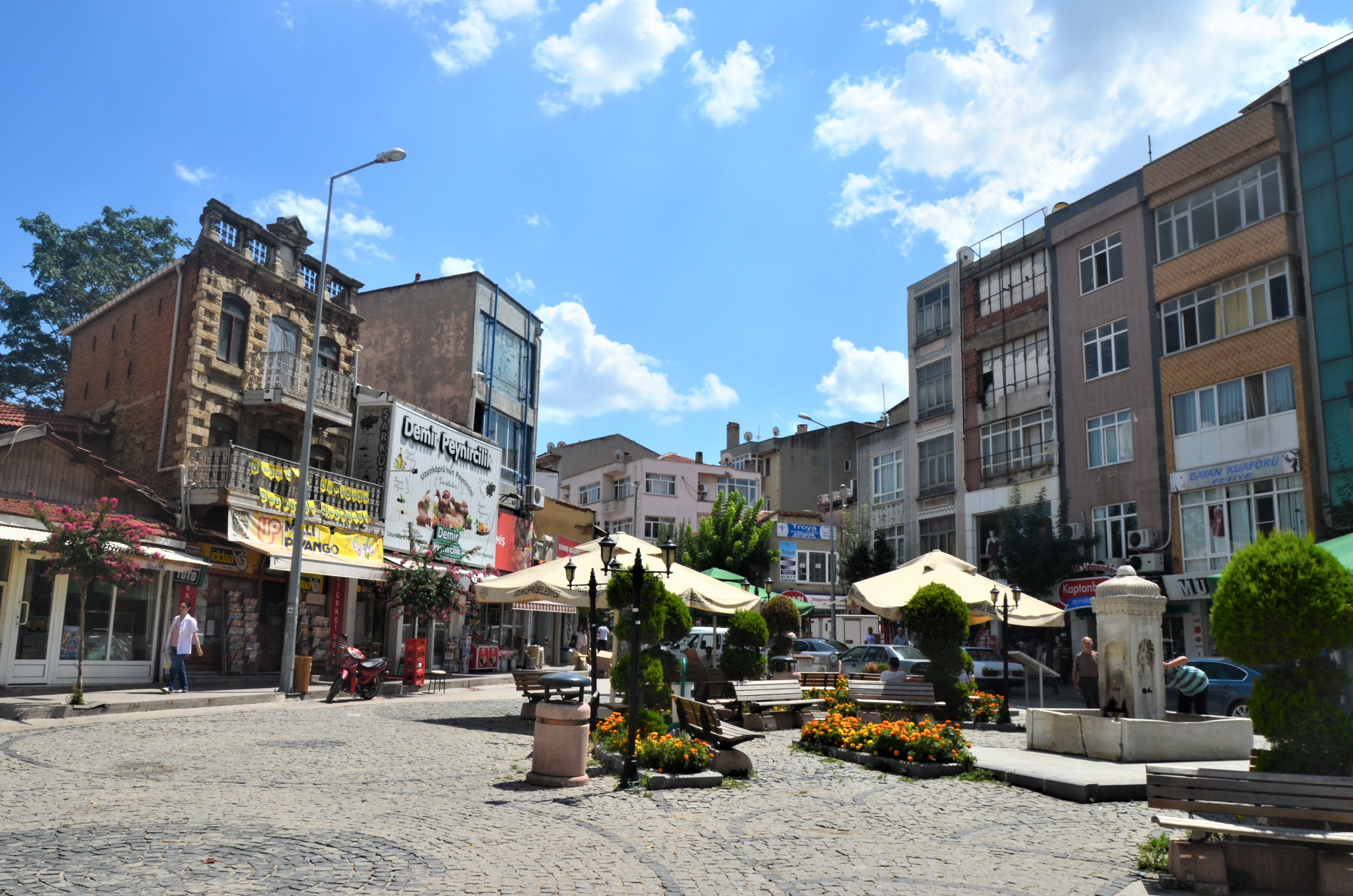 Market square (Çarşı Meydanı) in Uzunköprü